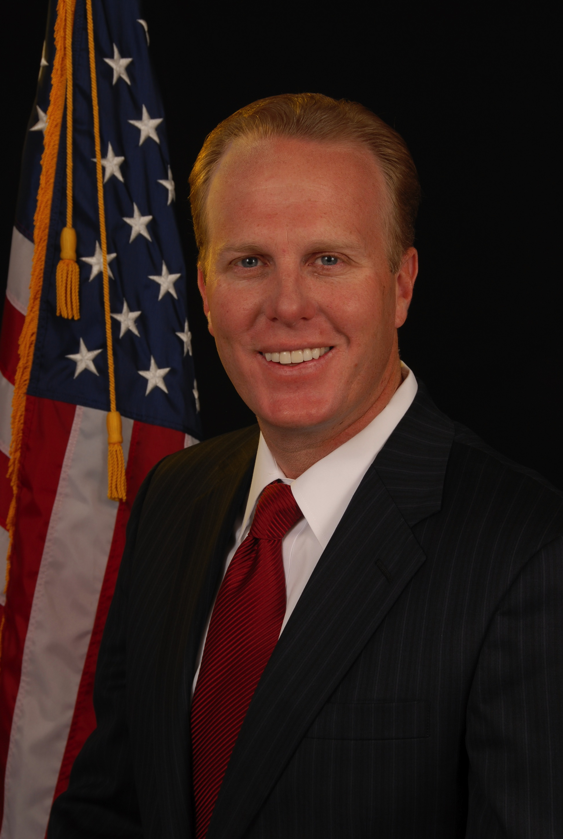 Official portrait of Kevin Faulconer, City Council Member District 2